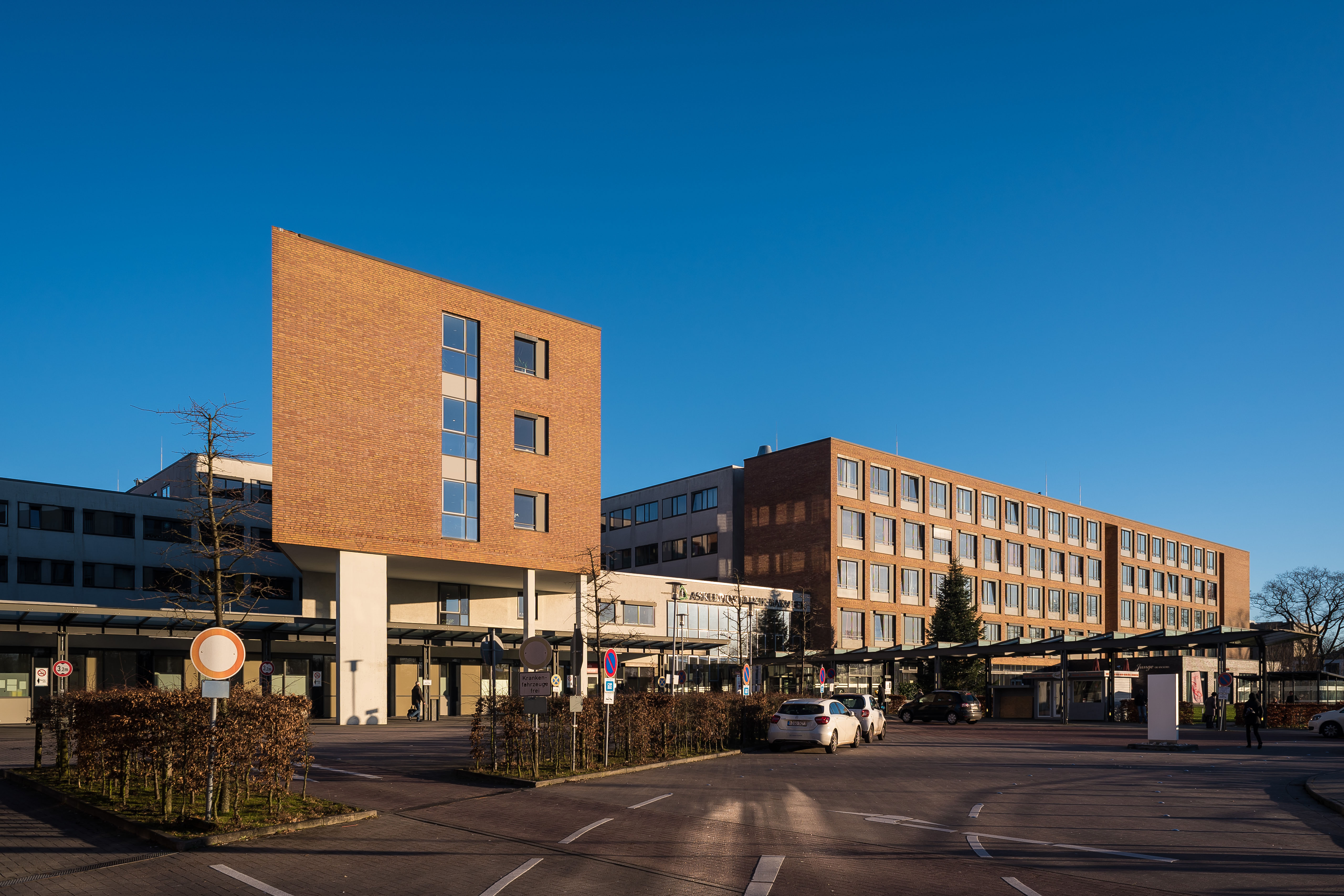 Asklepios Klinik Barmbek (formerly Barmbek General Hospital, Allgemeines Krankenhaus Barmbek), in Barmbek-Nord, Hamburg, Germany.